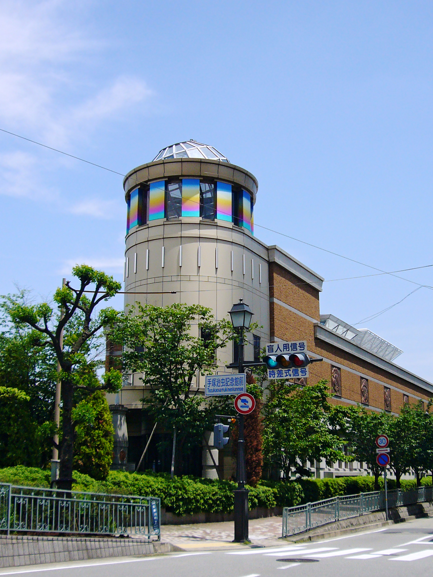 Takarazuka Municipal Tezuka Osamu Memorial Art Museum in Takarazuka, Hyogo prefecture, Japan